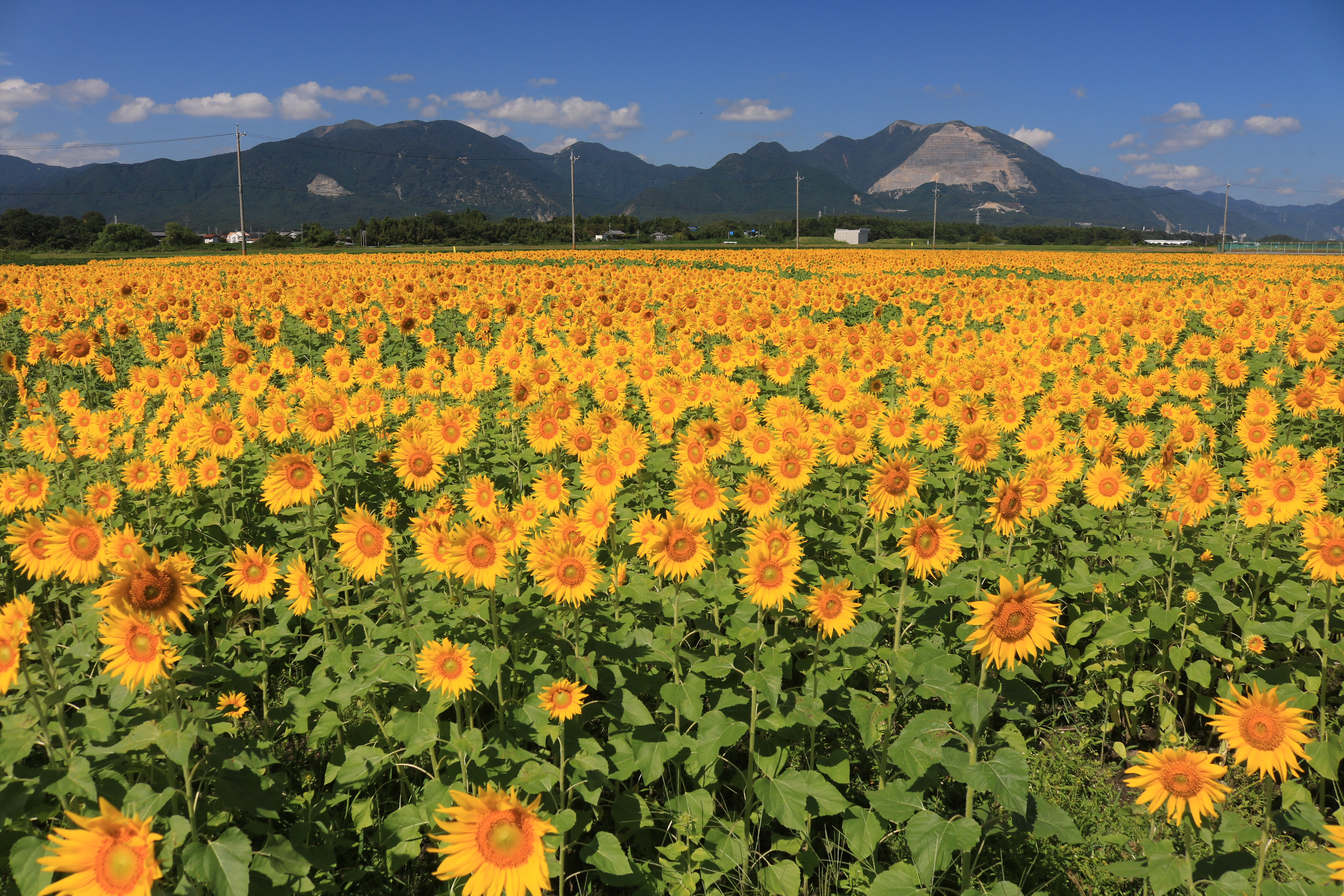 Mount Ryu and Mount Fujiwara of Suzuka Mountains with Sunflower field in Inabe, Mie prefecture, Japan.